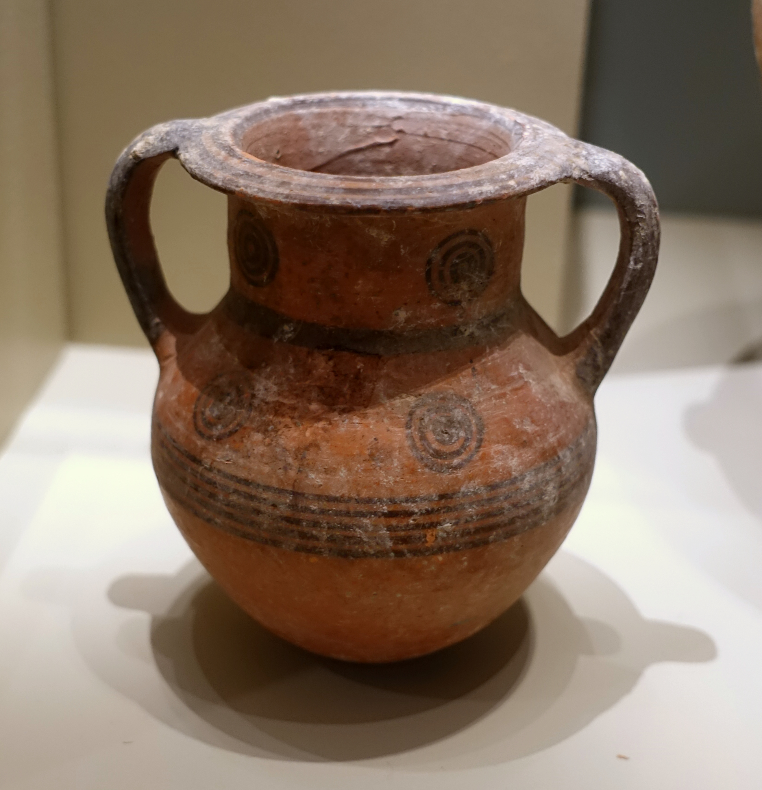 Exhibit in the Middlebury College Museum of Art - Middlebury, Vermont, USA.